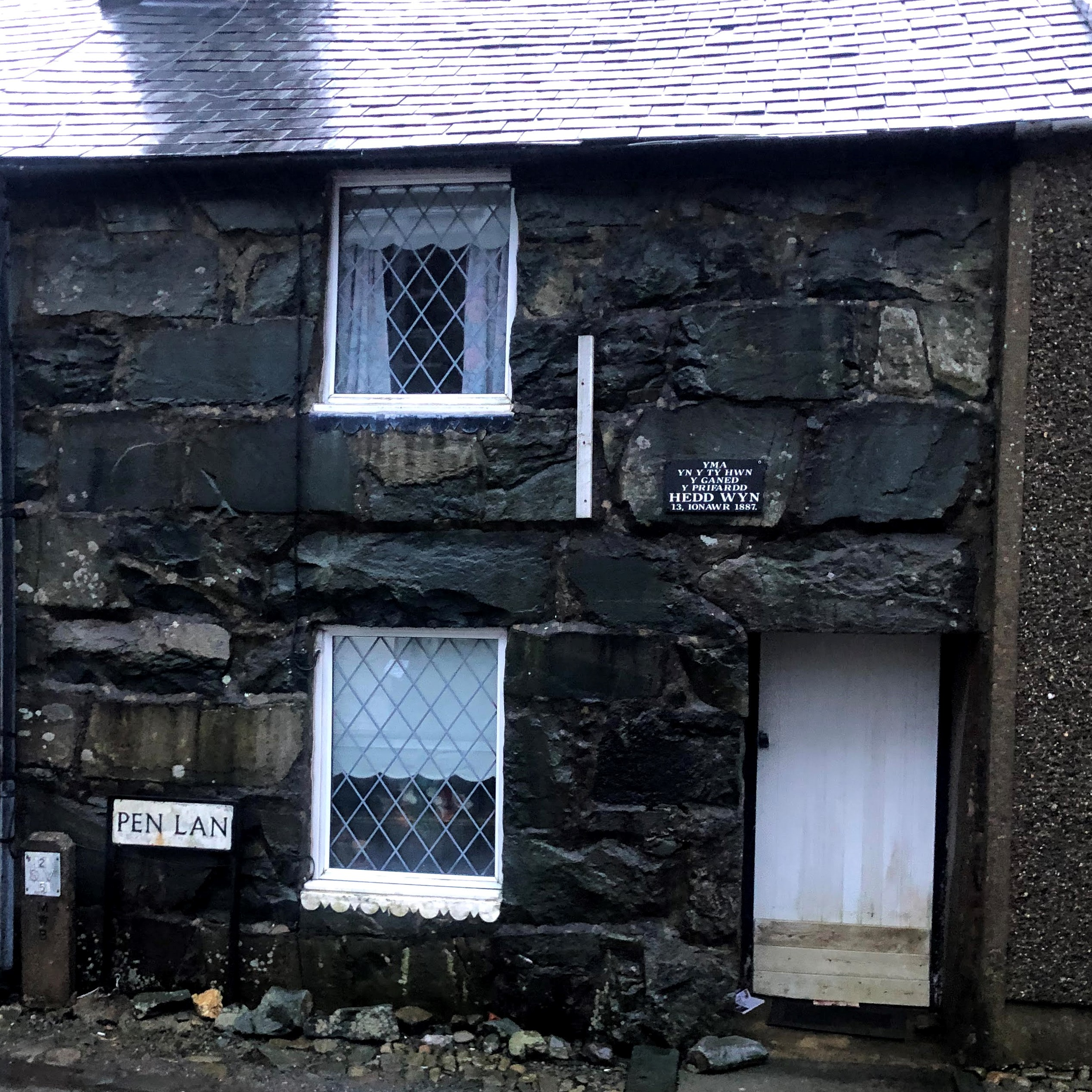 Hedd Wyn a Welsh-language poet was born in this house on 13 January 1887 (as Ellis Humphrey Evans), Trawsfynydd, Wales